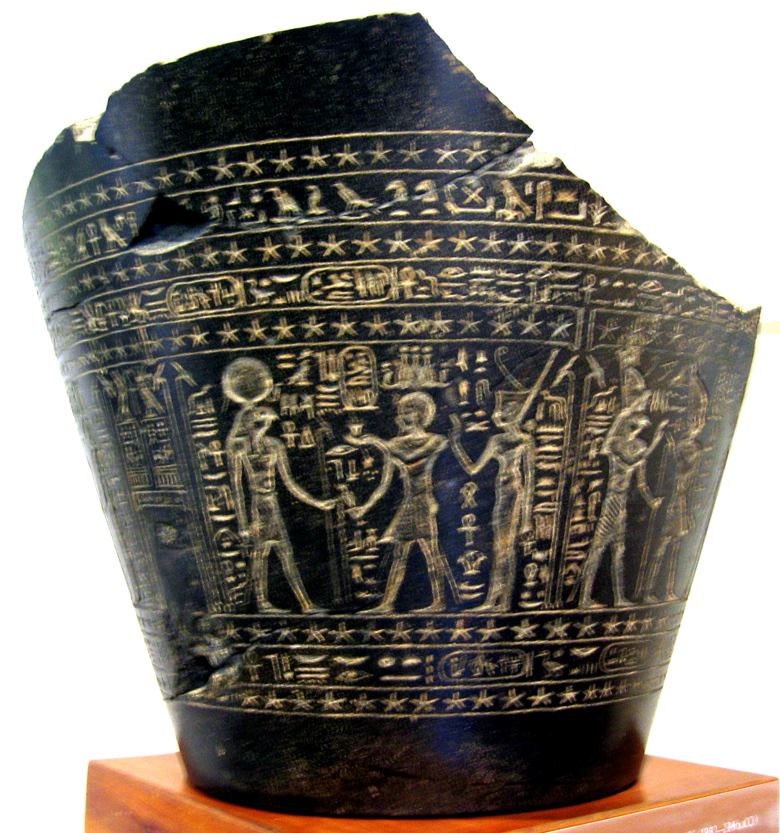 Clepsydra